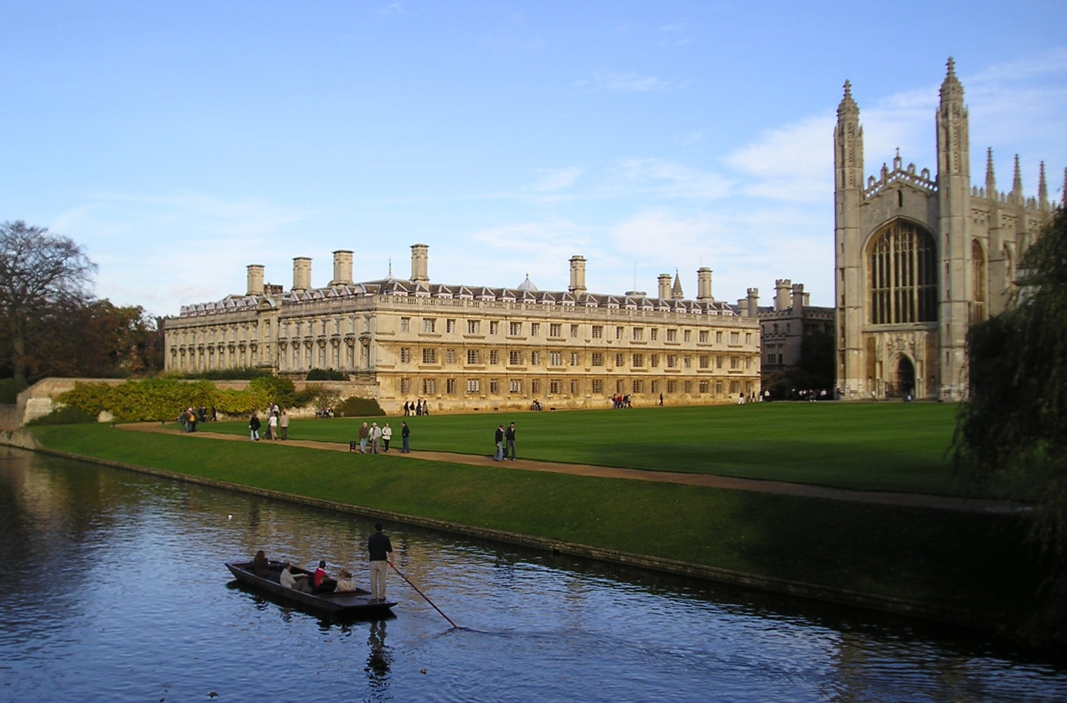 View from the Backs to Clare College and King's Chapel with a punt in the foreground.